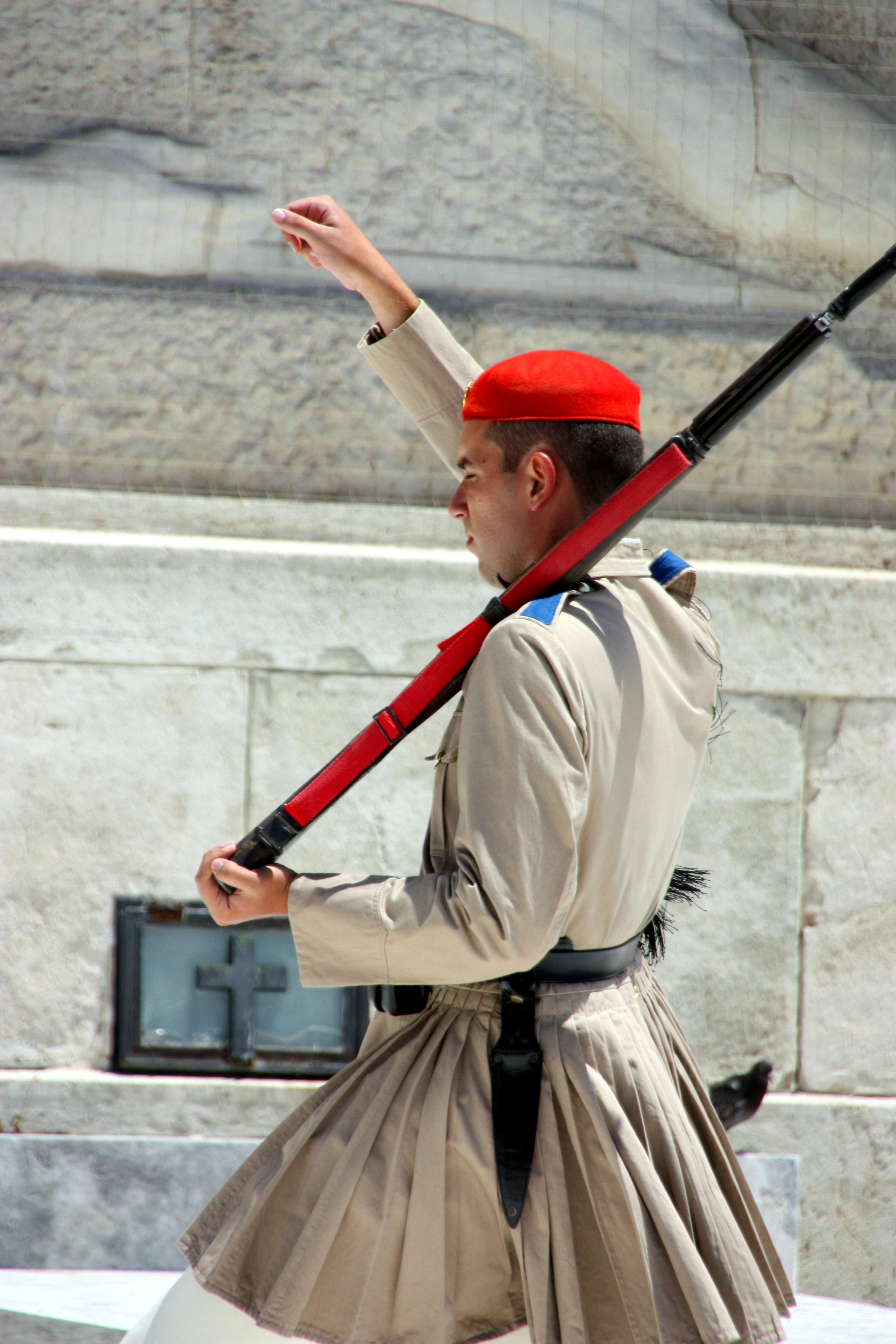 Changing of the Guard at the Tomb of the Unknown Soldier, Athens